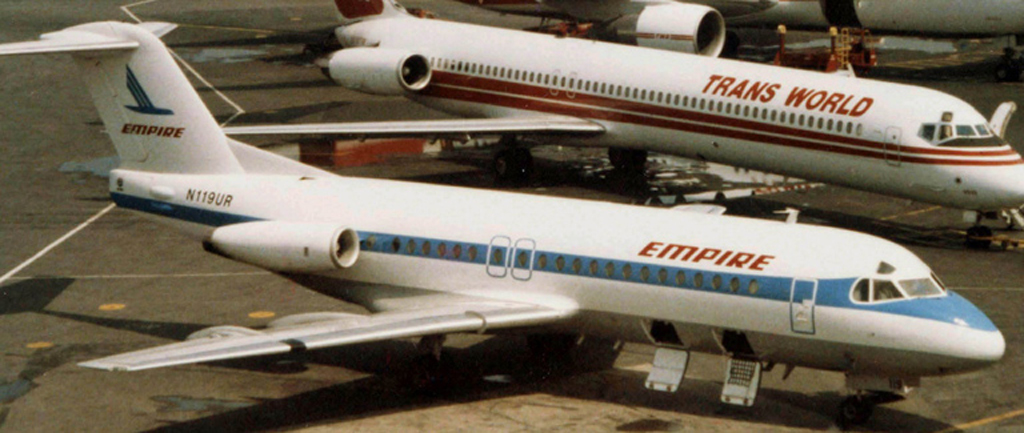 Empire Airlines Fokker F-28 Fellowship 4000 at New York (La Guardia) Airport